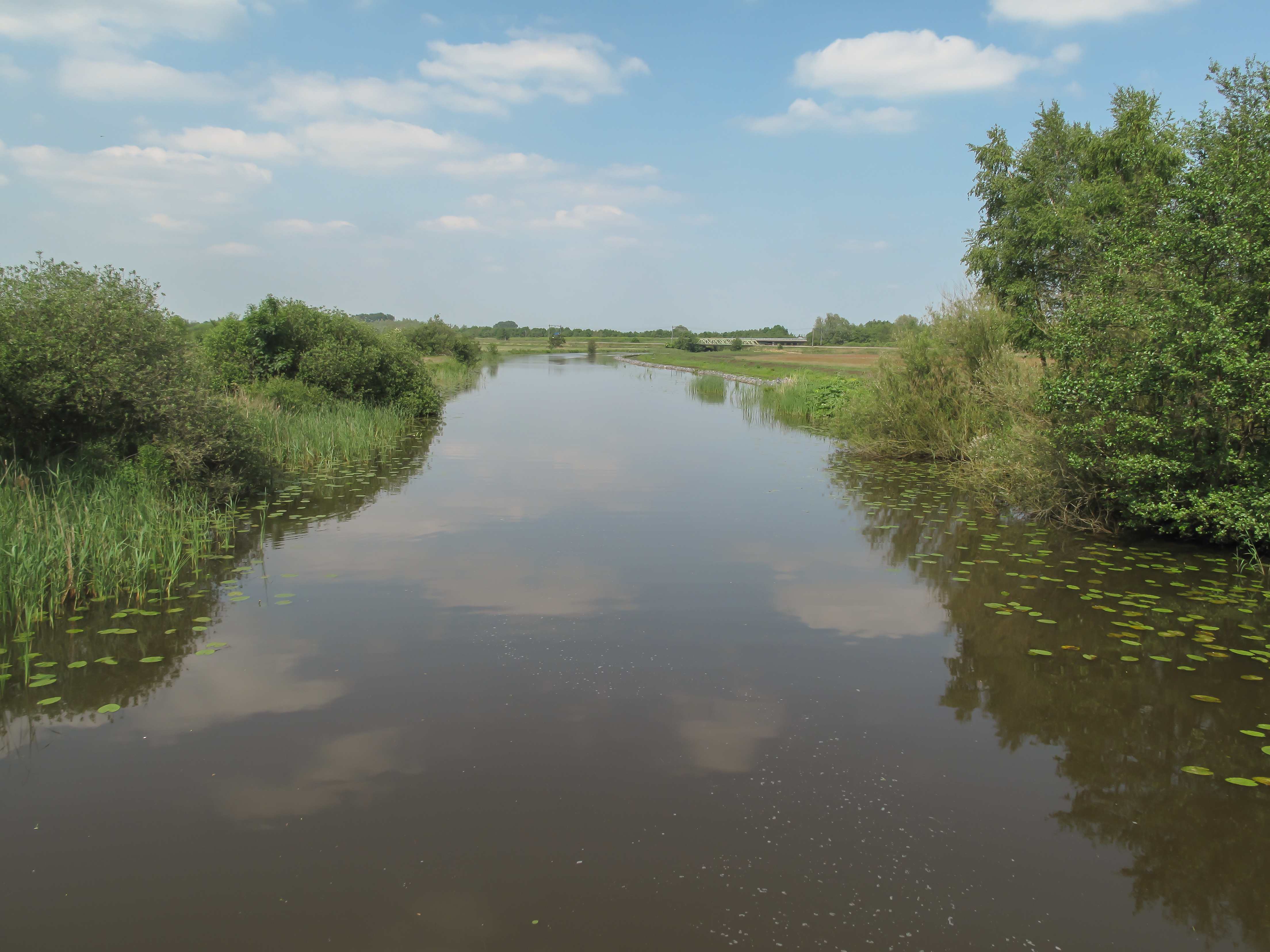 between Wolvega and De Blesse, river: de Linde